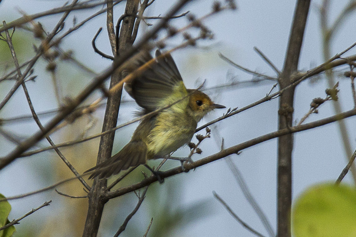 Euscarthmus meloryphus fulviceps - Tawny-crowned Pygmy-Tyrant - South Ecuador_S4E9687